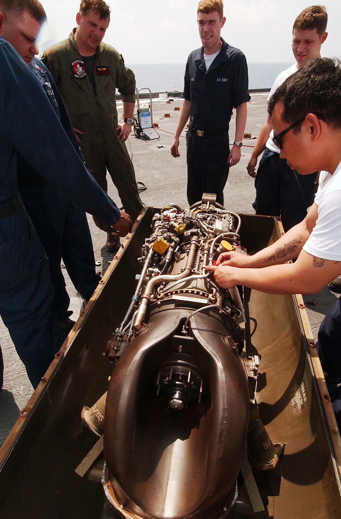 Pacific Ocean (Apr. 22, 2004) - Members assigned to the "War Lords" of Light Helicopter Anti-Submarine Squadron Five One (HSL-51) inspect a new engine for an SH-3G Sea King helicopter aboard USS Coronado (AGF 11). The new engine will replace the old one, which was damaged by debris. Coronado is serving as the temporary command ship for U.S. Seventh Fleet while USS Blue Ridge (LCC 19) is in a scheduled dry dock maintenance period. Besides serving as a temporary command ship, Coronado is also experimenting with a unique manning concept. The crew is made up of Military Sealift Command (MSC) civilian mariners and a small group of Sailors, designed to replace the 481 Sailors normally assigned to Coronado. The combined MSC/Navy crew of 263, and some augmentees from the Seventh Fleet flagship Blue Ridge, support the embarked Seventh Fleet staff. U.S. Navy photo by Photographer's Mate 3rd Class John E. Woods. (RELEASED)